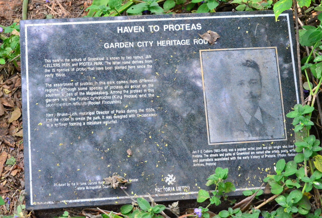 This park was named after Jan FE Celliers, Afrikaans poet